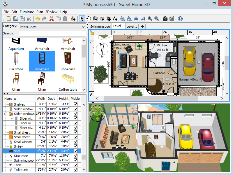 Screen capture of Sweet Home 3D Windows en